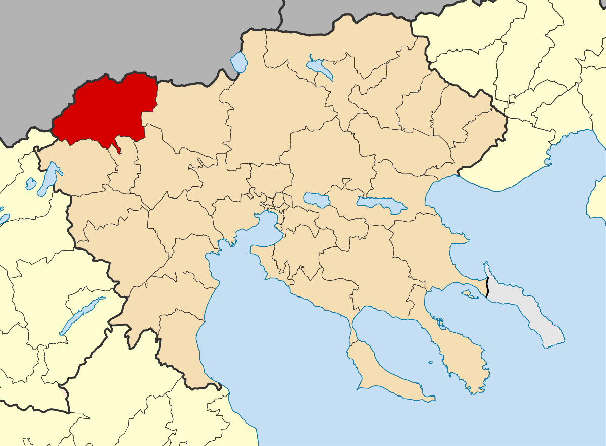 Locator map for Almopia municipality in Greek region Central Macedonia (2011)